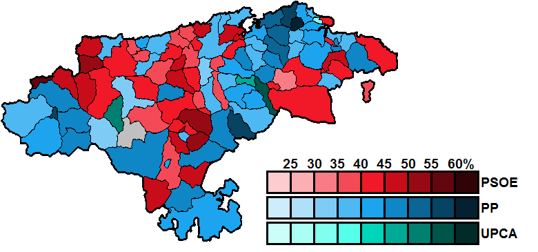 Most-voted party in Cantabria municipalities, showing vote share obtained, in the Spanish general election, 1993.